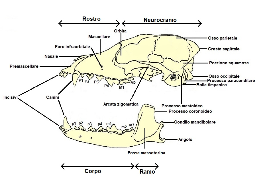 Drawing of a jackal cranium with key anatomical parts labelled in Italian. The skull outline is loosely based on figure from The Fauna of British India, vol. 1, 1939